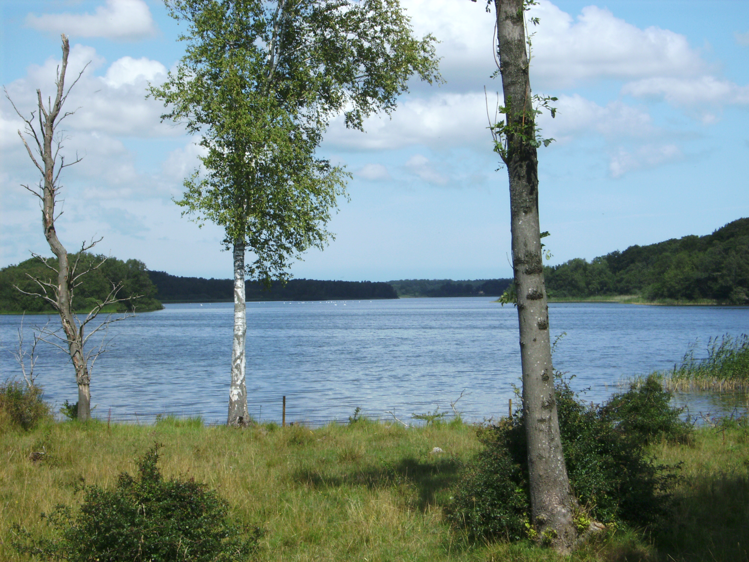 Røgbølle sø, a lake on the islan Lolland in Denmark